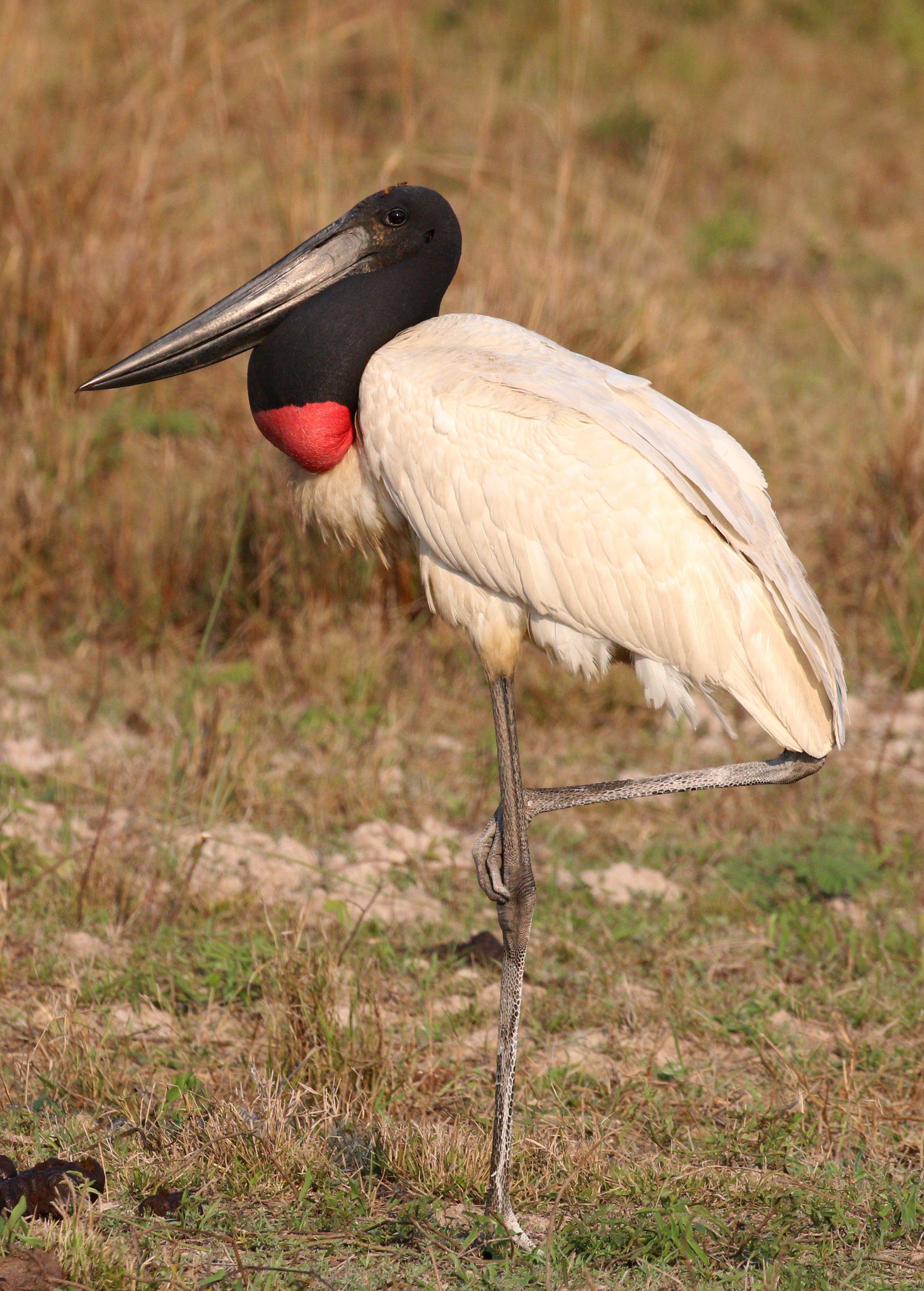 Crop of file in filename